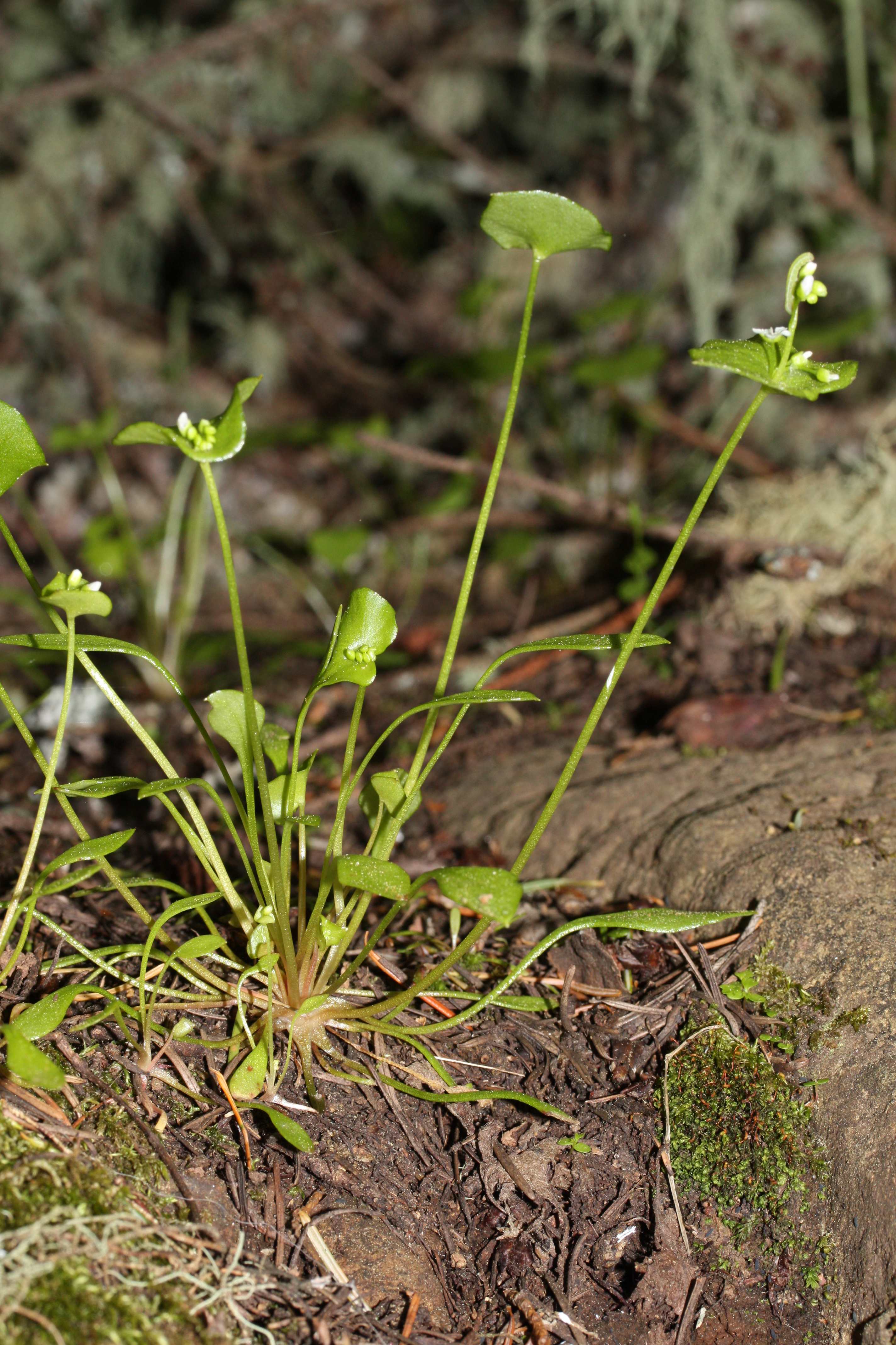 Miner's Lettuce; auth. Donn ex Willd.